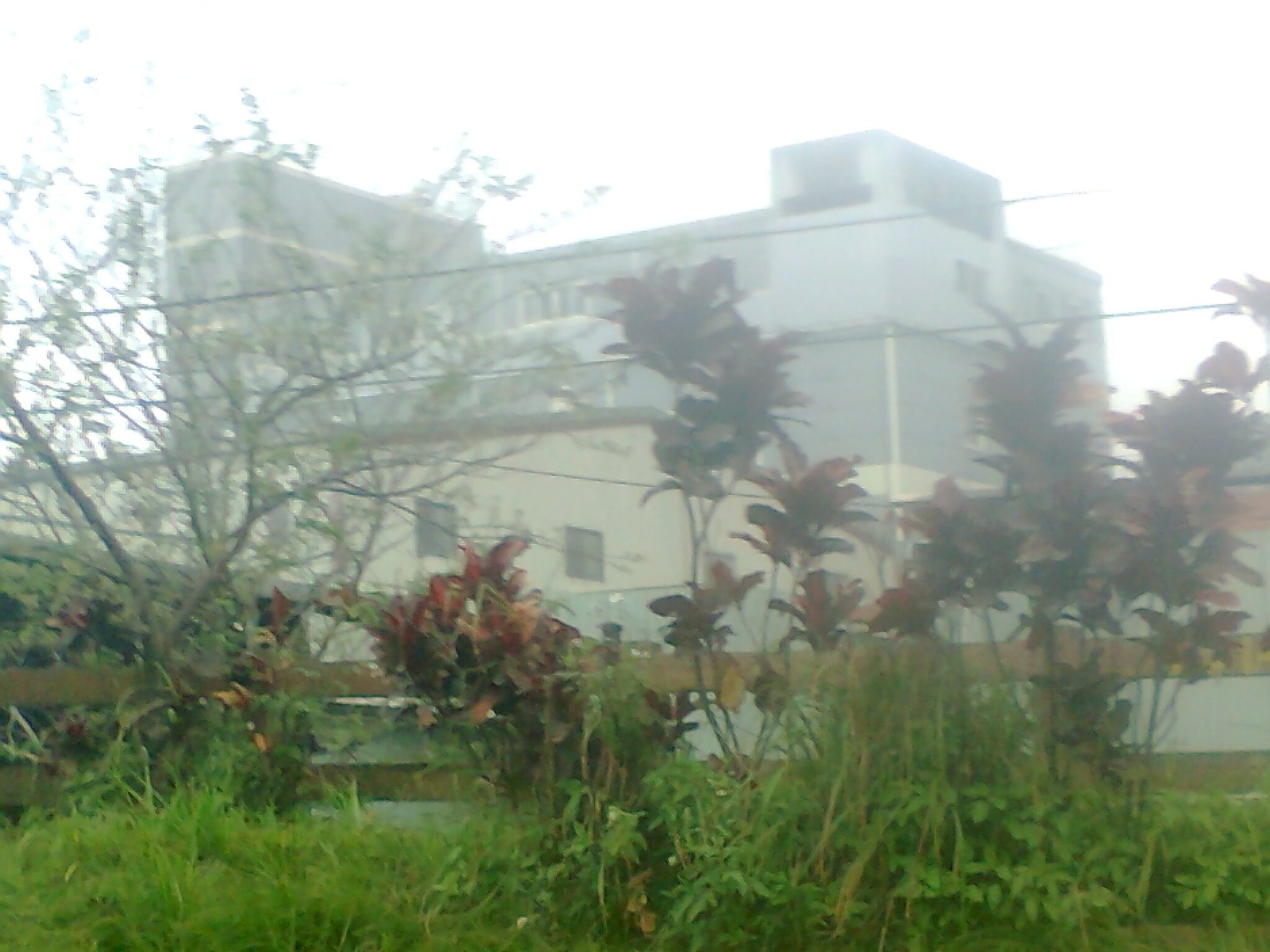 Keelung Riverside Bikeroad